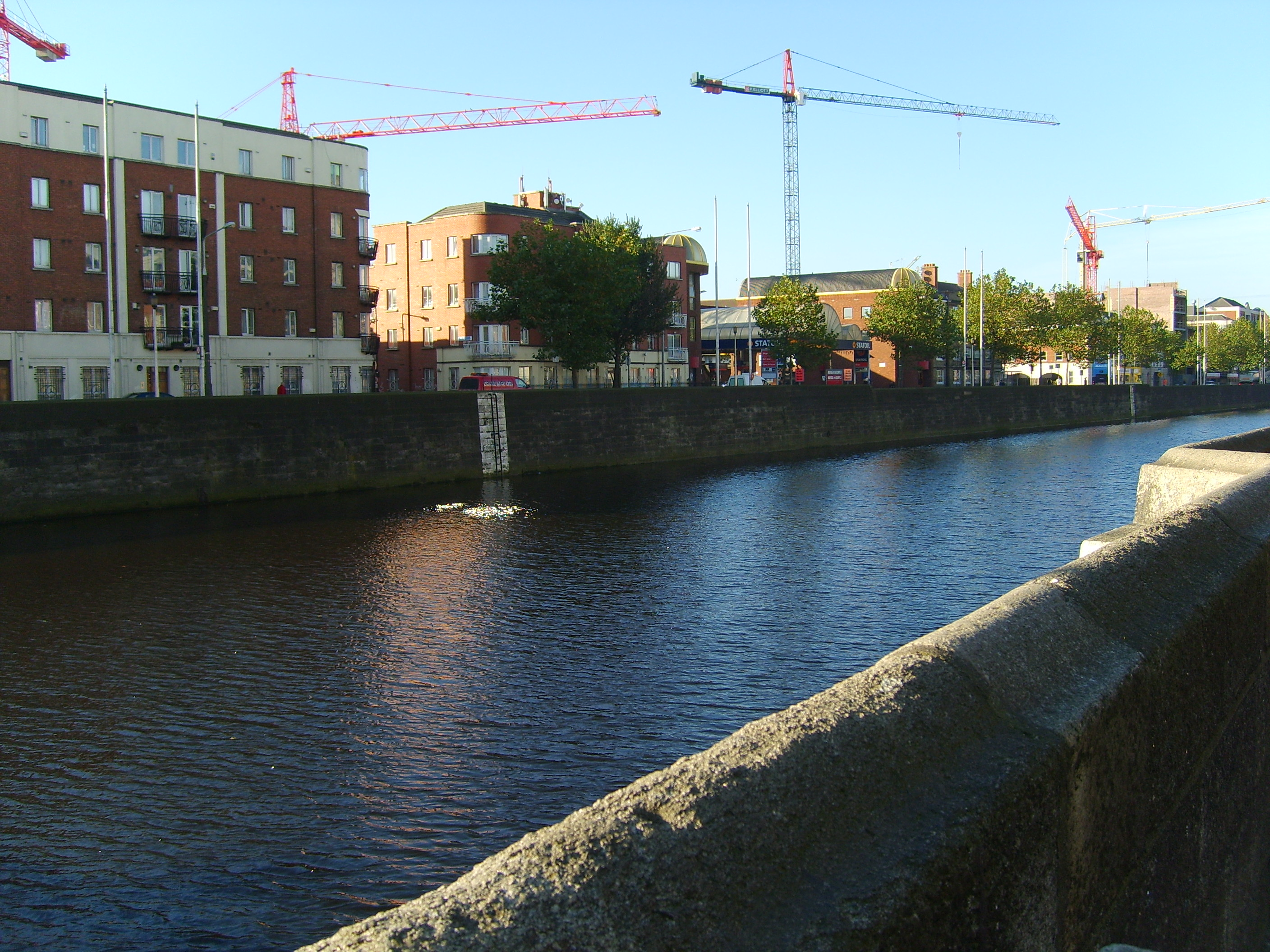 Digital photo of the River Liffey, Dublin, at the point where the Ford of hurdles was located